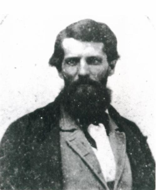 Colonel John. R. Gratiot commanded the 3rd Regiment, Arkansas State Troops at the Battle of Wilson's Creek. From Portraits of Conflict: A Photographic History of Arkansas in the Civil War, by Bobby Roberts and Carl Moneyhon.